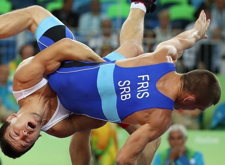 Wrestling at the 2016 Summer Olympics to 59 kg